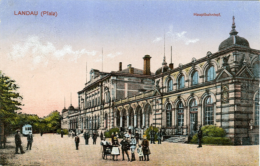 Postcard, dated 4.5.1918. Title: "Landau ( Palatinate ) - Main train station"